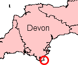 Created by Keith Edkins.